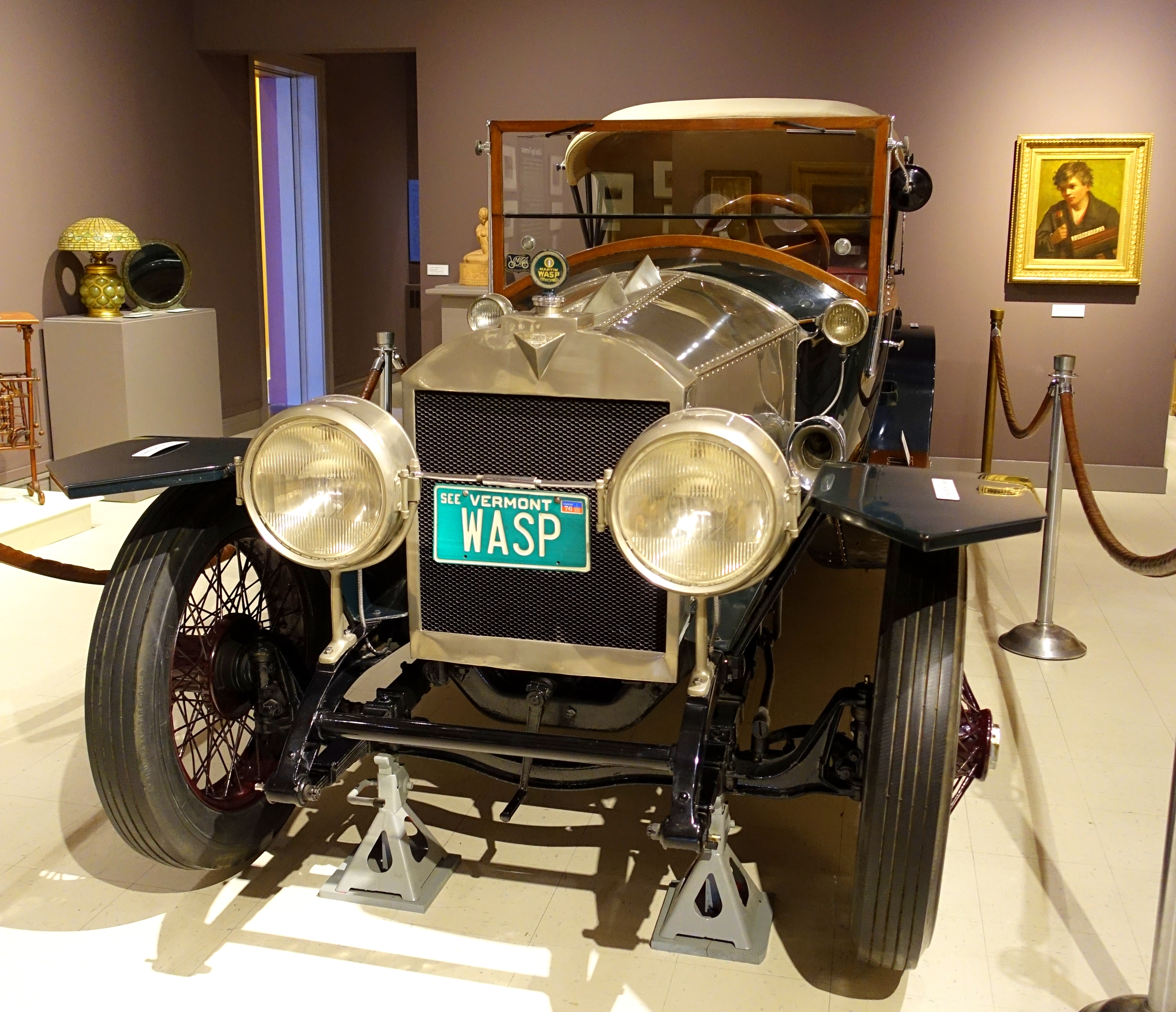 Exhibit in the Bennington Museum - Bennington, Vermont, USA. This work is in the public domain because the artist died more than 70 years ago.